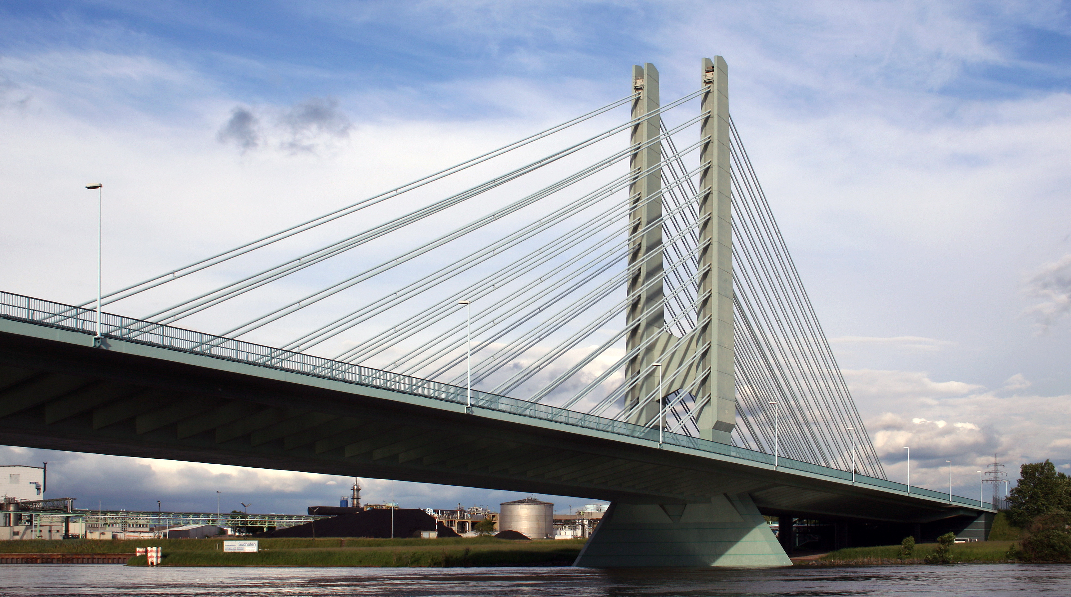 The Werksbrücke West is a splitted bridge over the Main that connects Sindlingen with a street to a gate of the Industriepark Höchst, former Hoechst AG, respectively its nothern with the southern part and is on its publice side for non-motorized use only.